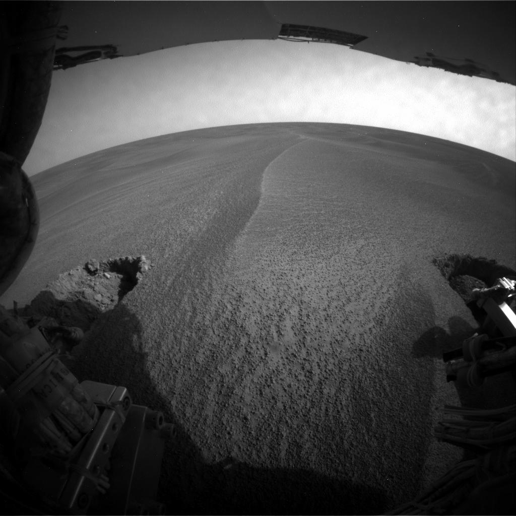 The dug-in back wheels of the Opportunity rover. Left Rear Hazard Camera Non-linearized Full frame EDR acquired on Sol 468 of Opportunity's mission to Meridiani Planum at approximately 15:34:38 Mars local solar time.